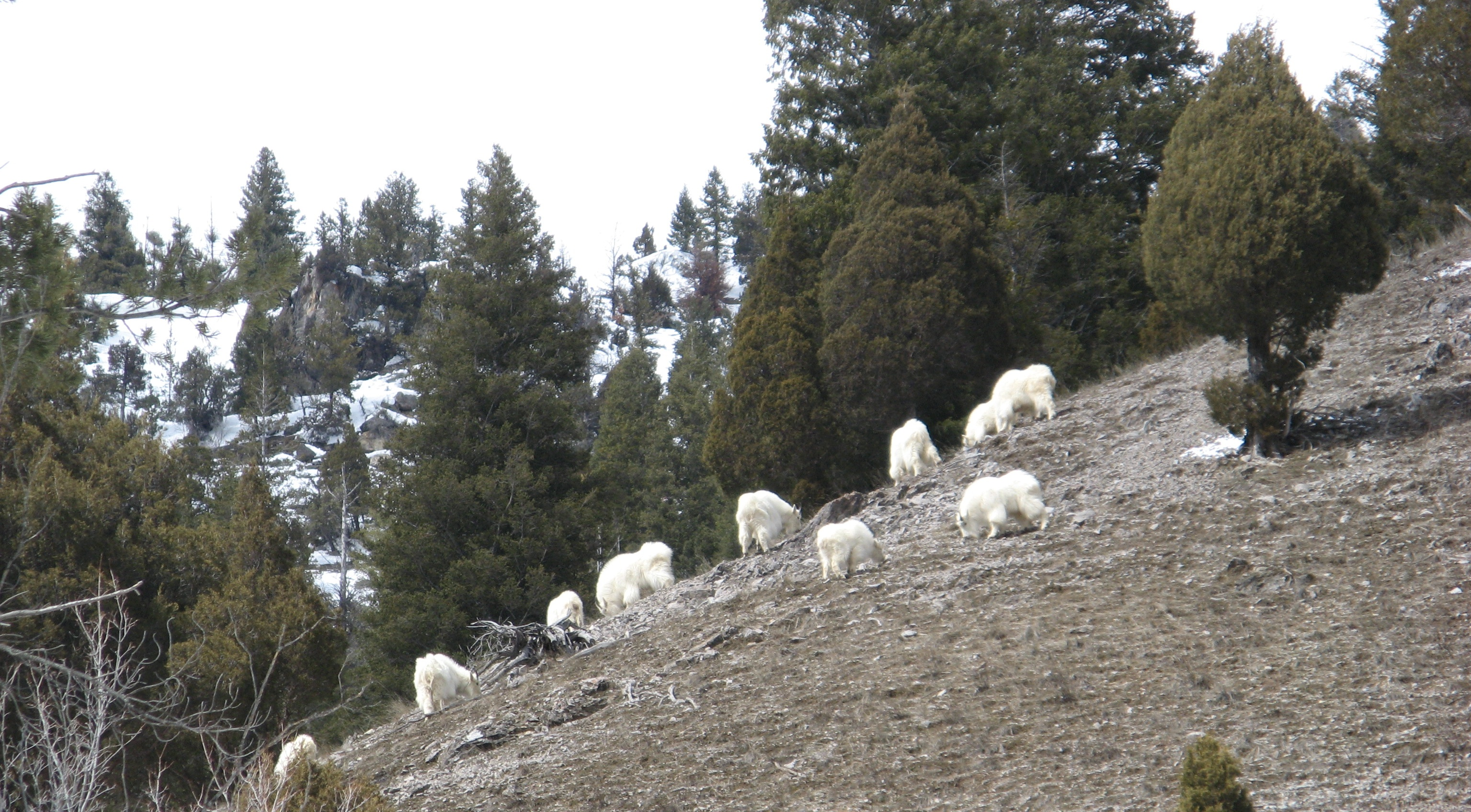 Mountain goats spotted in the wild, north of the road running east past Alpine Junction, WY, March, 2008.